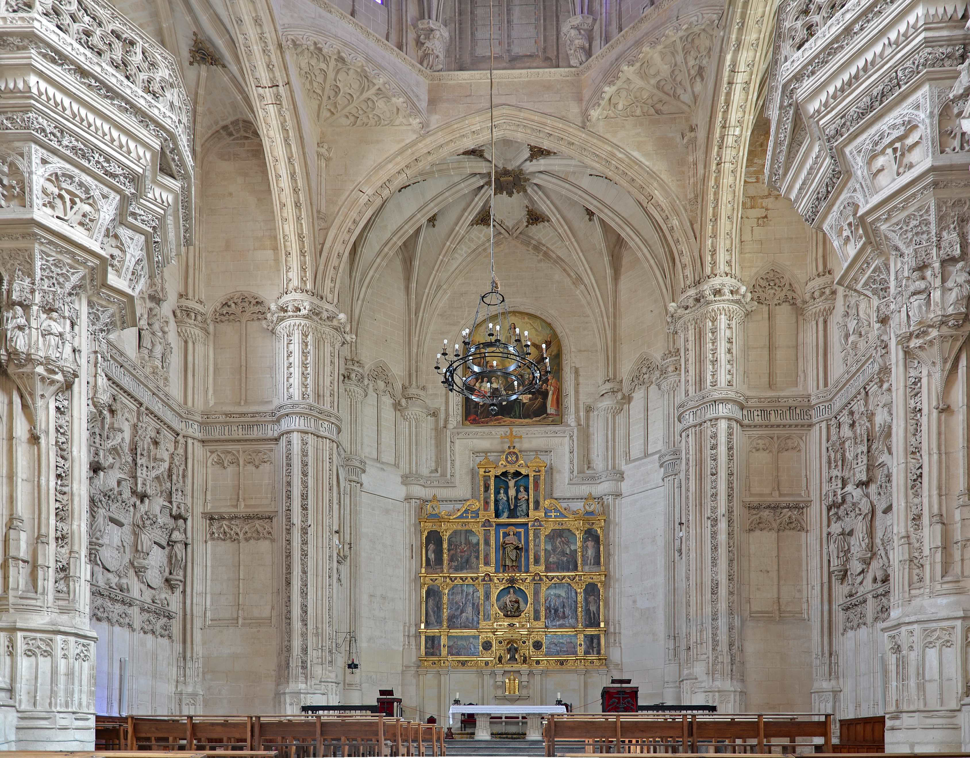 Church choir of Monastery of Saint John of the Kings - Toledo, Spain